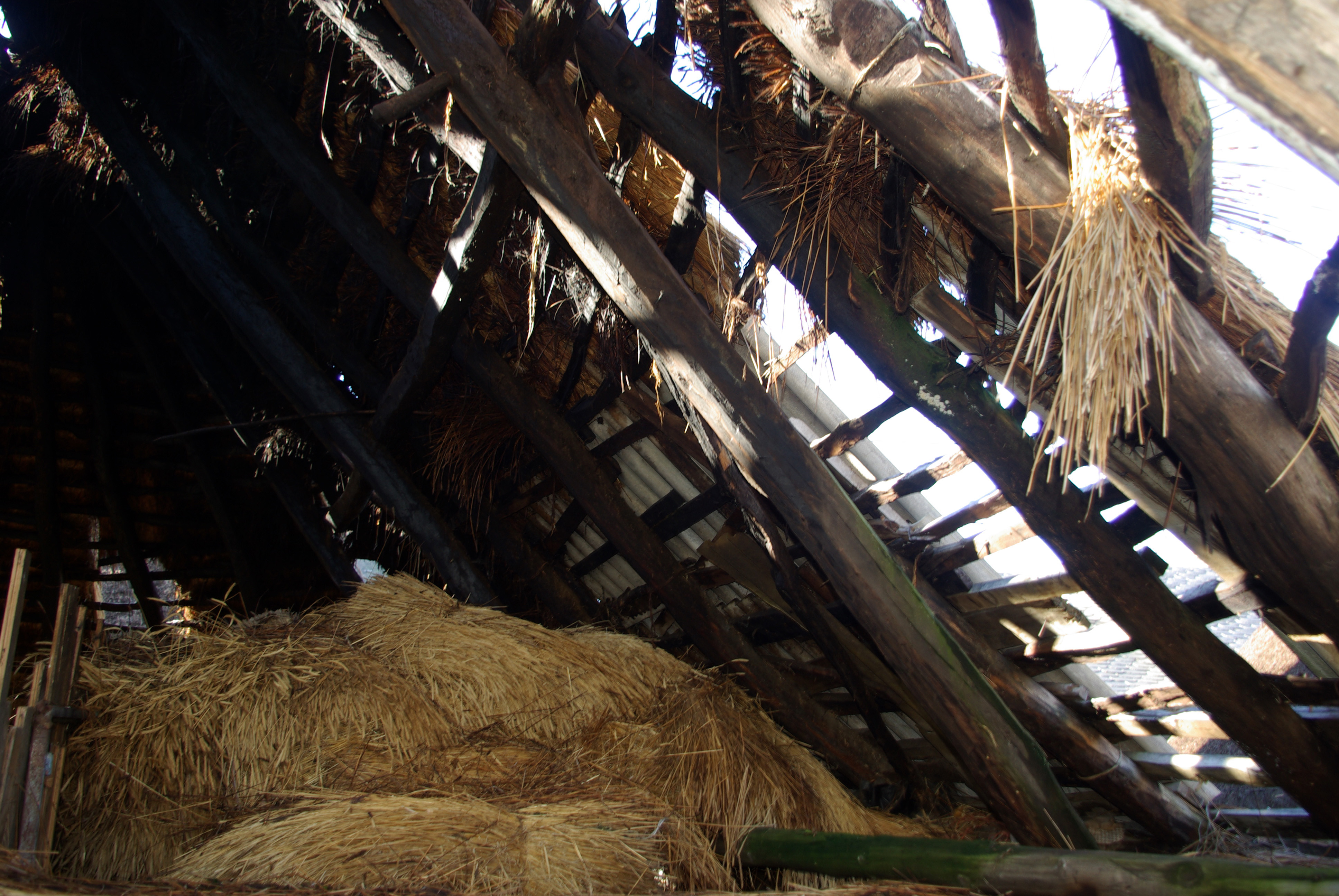 Interior of a ruined thatched straw house in Balouta, Candín (León, Spain)